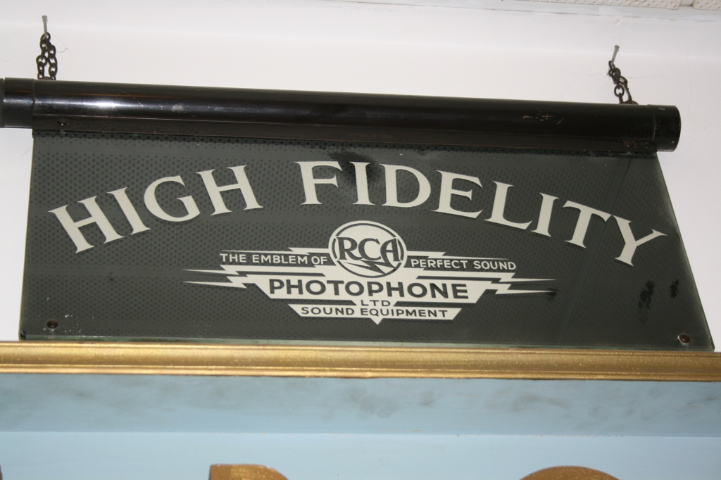 "High Fidelity": Indicated to audiences in the 1930s that the cinema was showing sound films 'talkies' and that this company had supplied the equipment